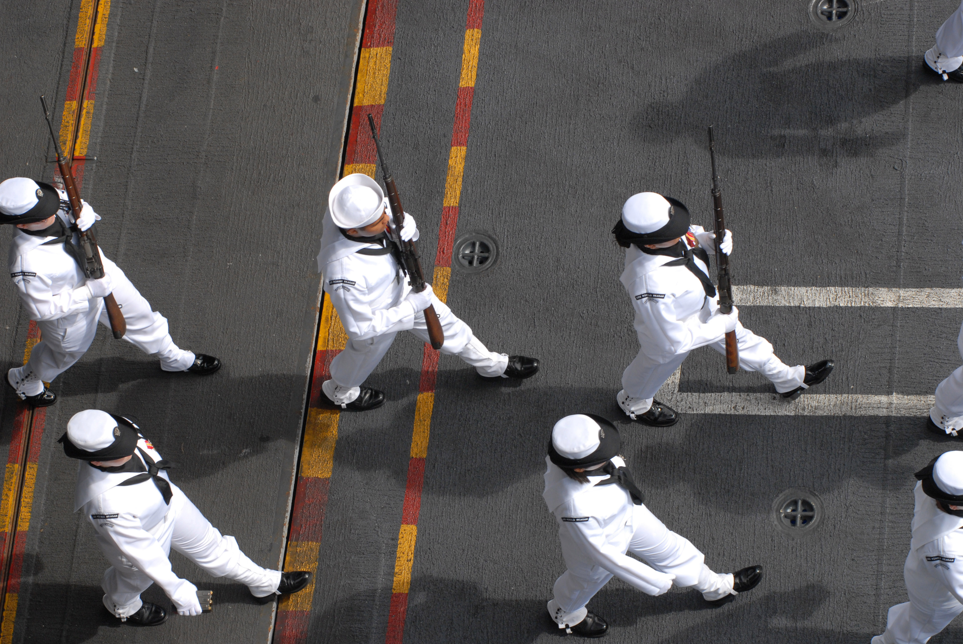 Members of a U.S. Navy rifle detail march to their designated spots for a burial-at-sea ceremony aboard the aircraft carrier USS Ronald Reagan (CVN 76) underway in the Pacific Ocean on June 9, 2009. The rifle detail will fire shots for each service member or spouse who will be laid to rest at the ceremony, which honors their lives and service to their country. The ship is on deployment in the western Pacific.